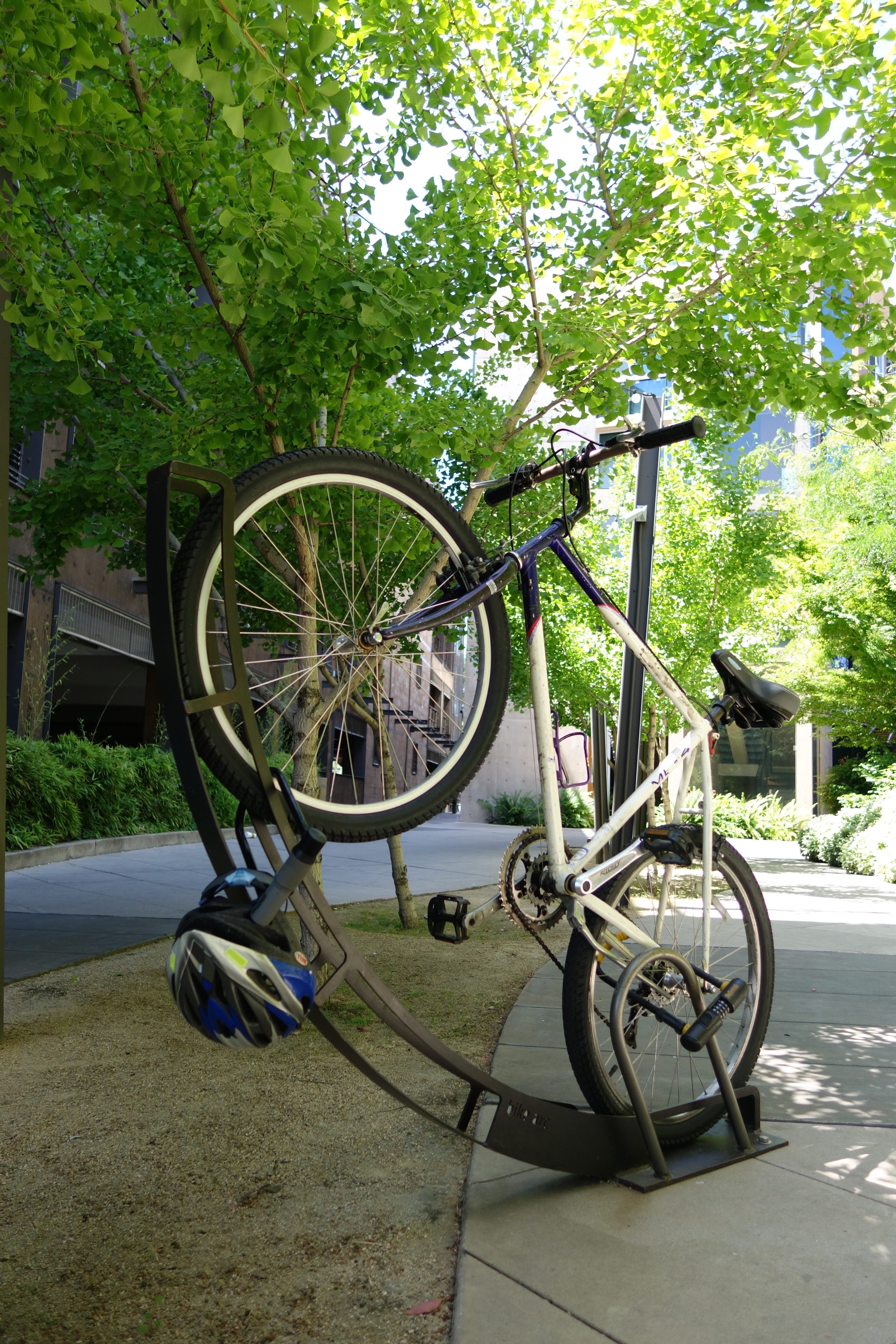 Rac Arc by Bike Arc is a vertical bicycle rack/bike parking and storage system. [1]